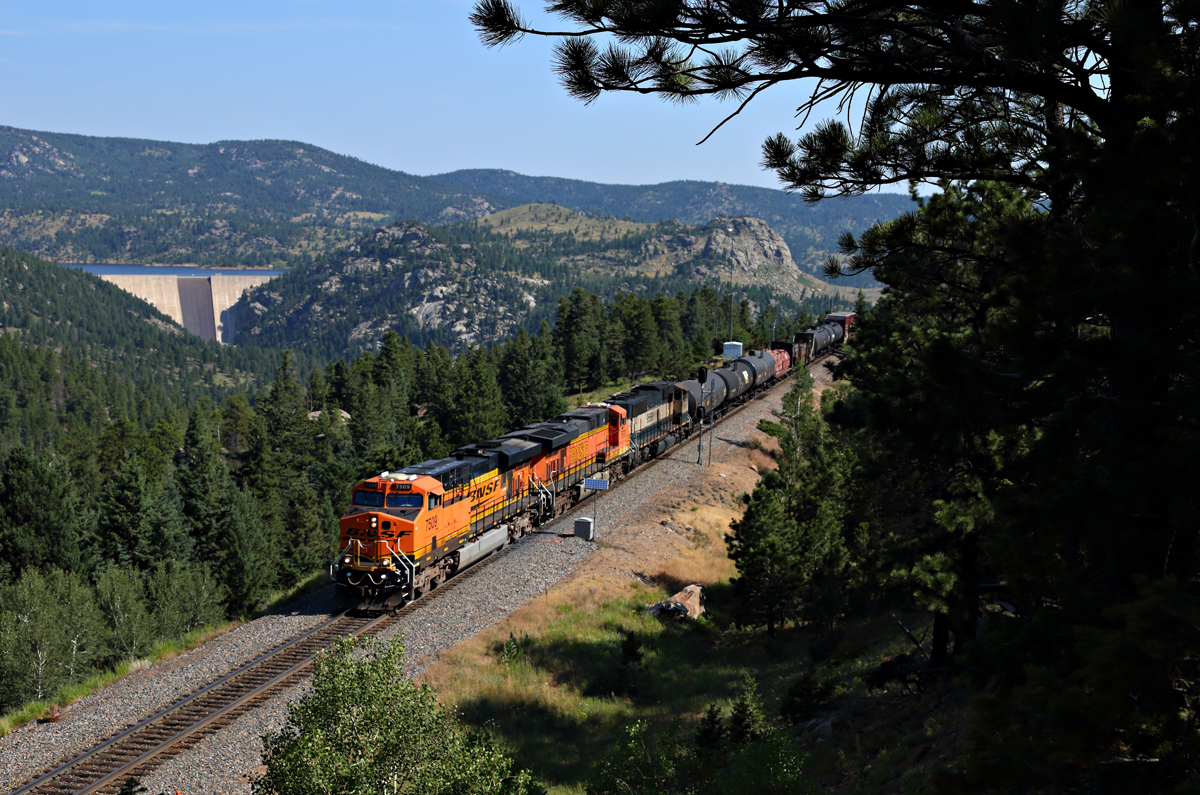 We had wanted to get the w/b Amtrak CZ at Crescent, and this BNSF manifest was supposed be a dry run. What could go wrong, you ask? Two of the locos failed on the grade west of Crescent and effectively blocked the main and the route of the CZ. It wasn't a total loss tho as we still got shots of the BNSF train at Tunnel 1 and Crescent.